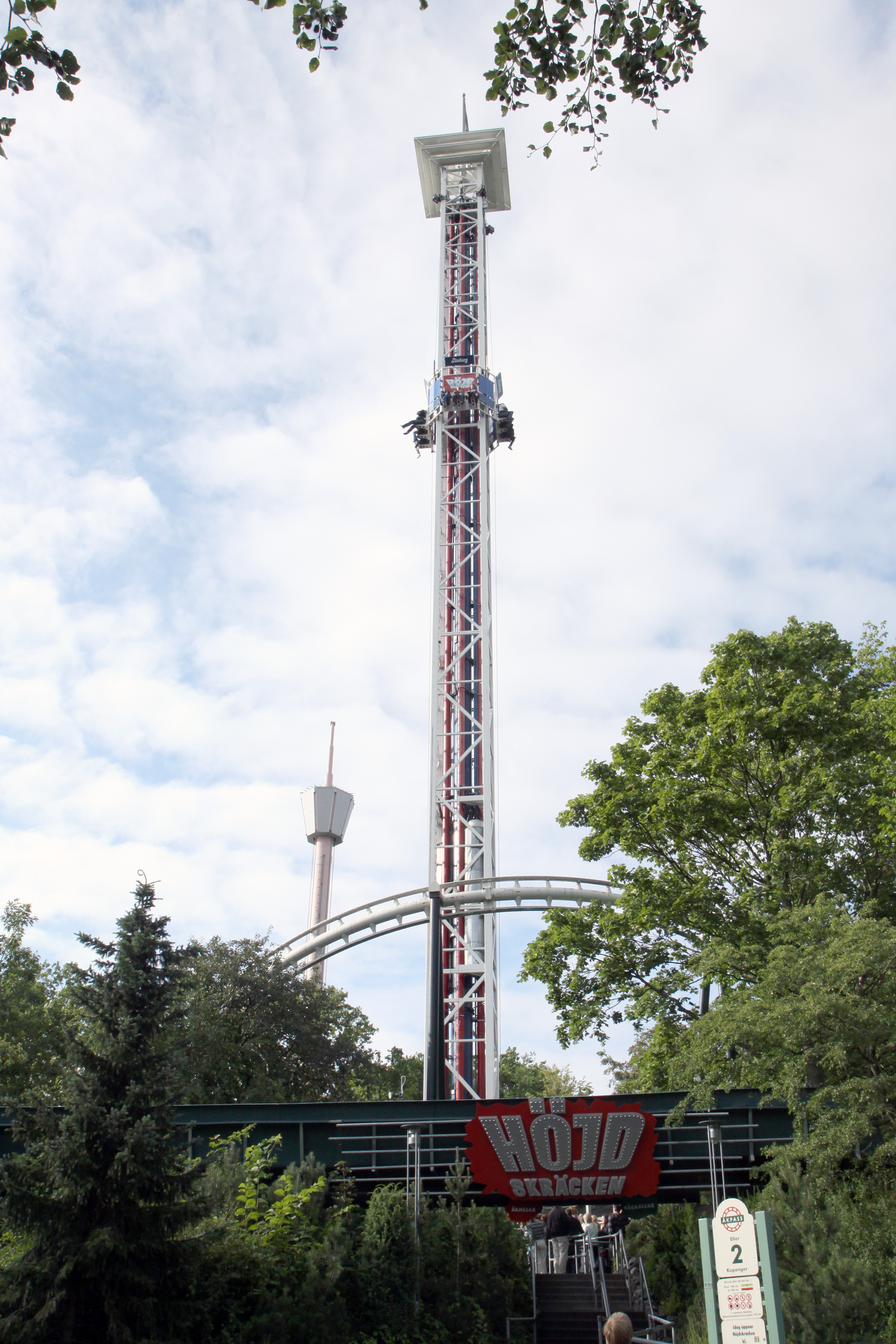 The ride "Hjödskräcken" at the amusement park Liseberg in Gothenburg, Sweden